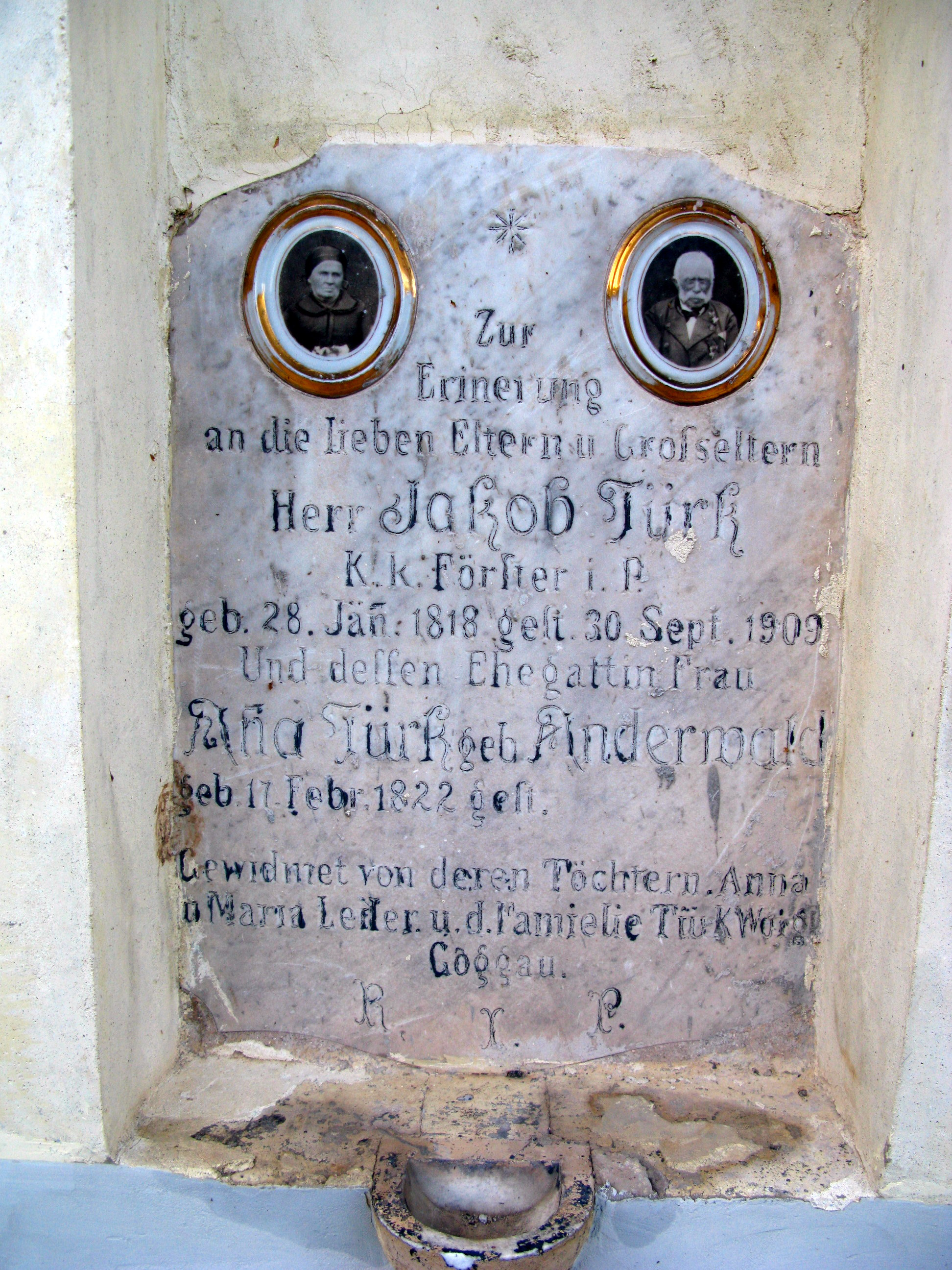 Gravestone at Church of Coccau in Coccau di Sopra, community Tarvisio in Friuli-Venezia Giulia / Italy / EU. It derive from the time befor 1918 as this village was part of Carinthia / Austria–Hungary. Inscription - Zur Erinnerung an die lieben Eltern und Großeltern Herr Jakob Türk K.K. Förster i. R. geb. 28. Jän. 1818 gest. 30. Sept. 1909. Und dessen Ehegattin Frau Ida Türk geb. Anderwald. Geb 17. Feb. 1822 gest. Gewidmet von deren Töchtern Anna, Maria Leder u. d. Familie Türk, Wörgl. Goggau.